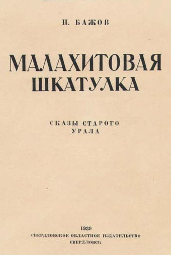 Title page of the 1st edition of the The Malachite Box, illustrated by A. Kudrin.